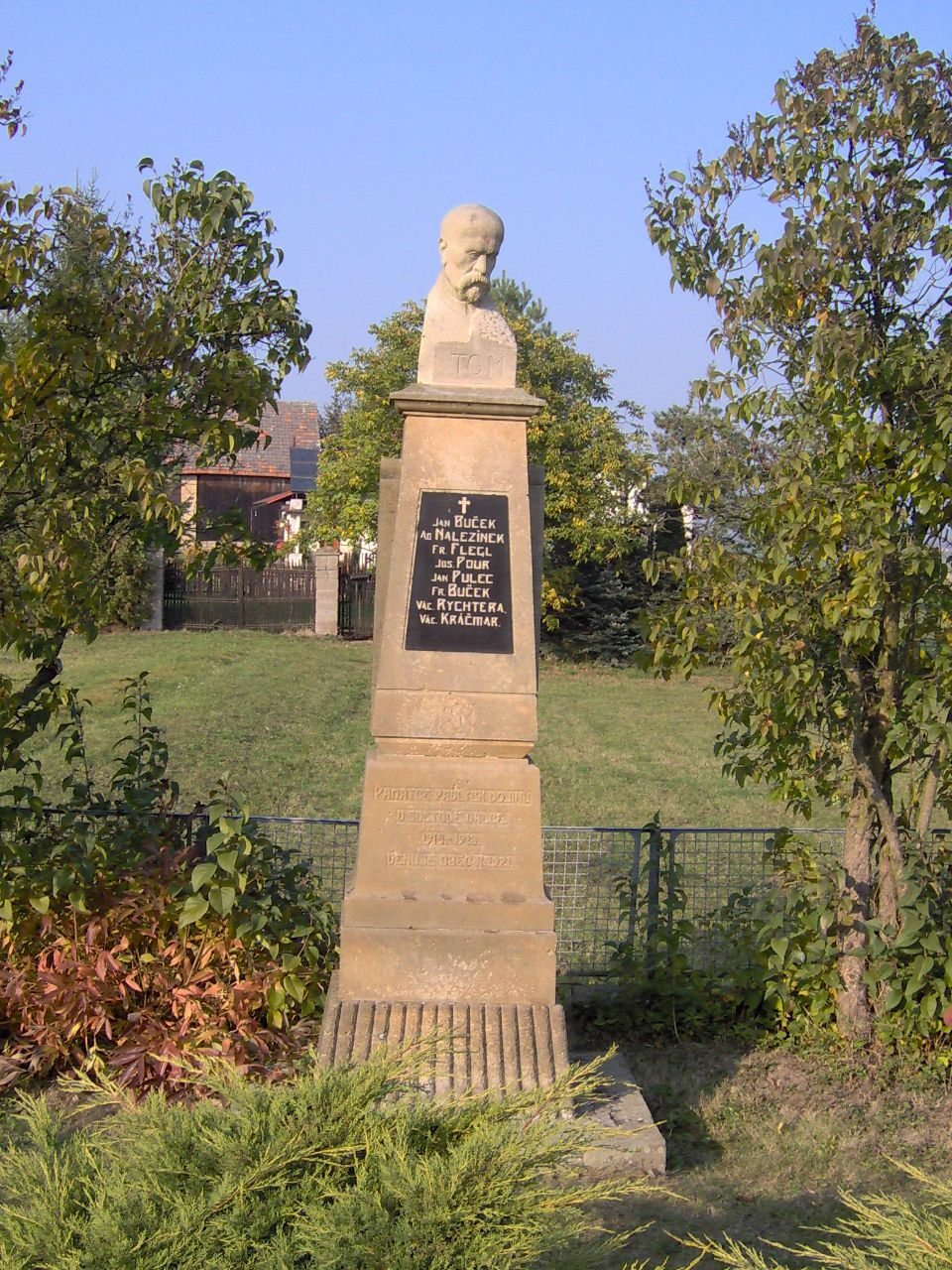 A World War I memorial in Šaplava, Hradec Králové District, Czechia, with a bust of T. G. Masaryk, first Czechoslovak president